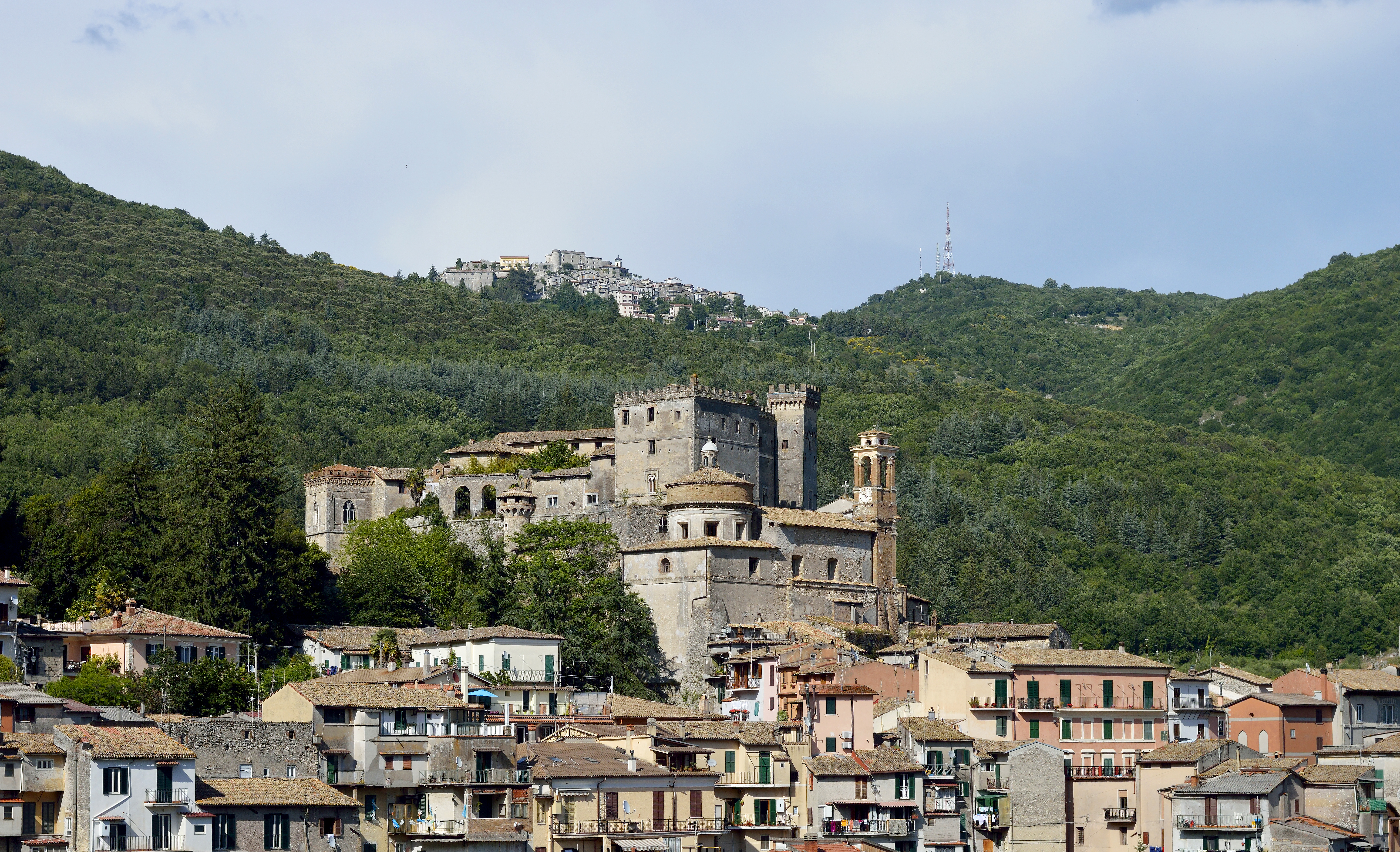 Massimo Castle (Arsoli)